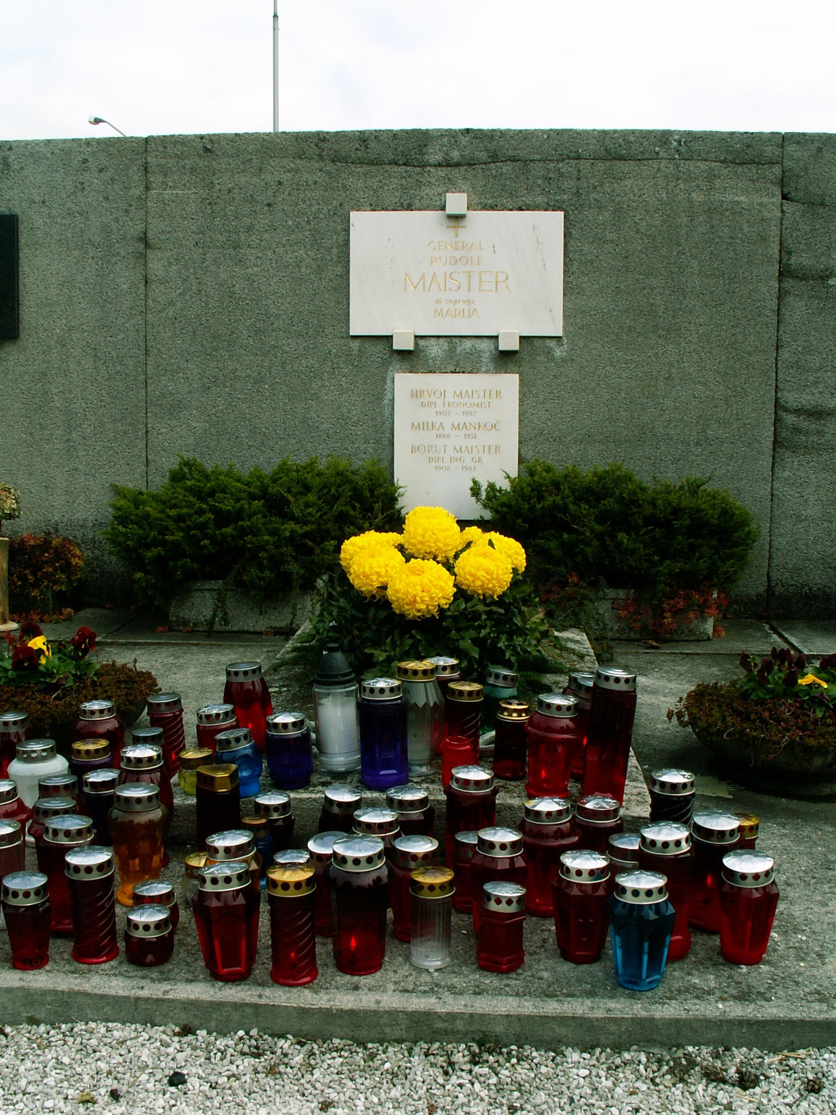 Grave of Slovenian general Rudolf Maister in Maribor, Slovenia